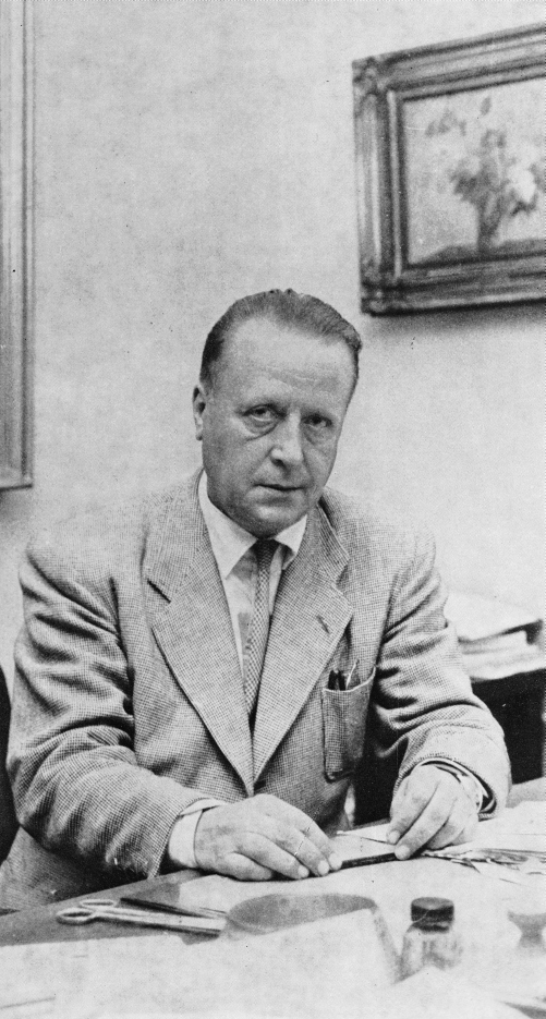 Photograph of the Finnish editor-in-chief Yrjö Niiniluoto (1900–1961).